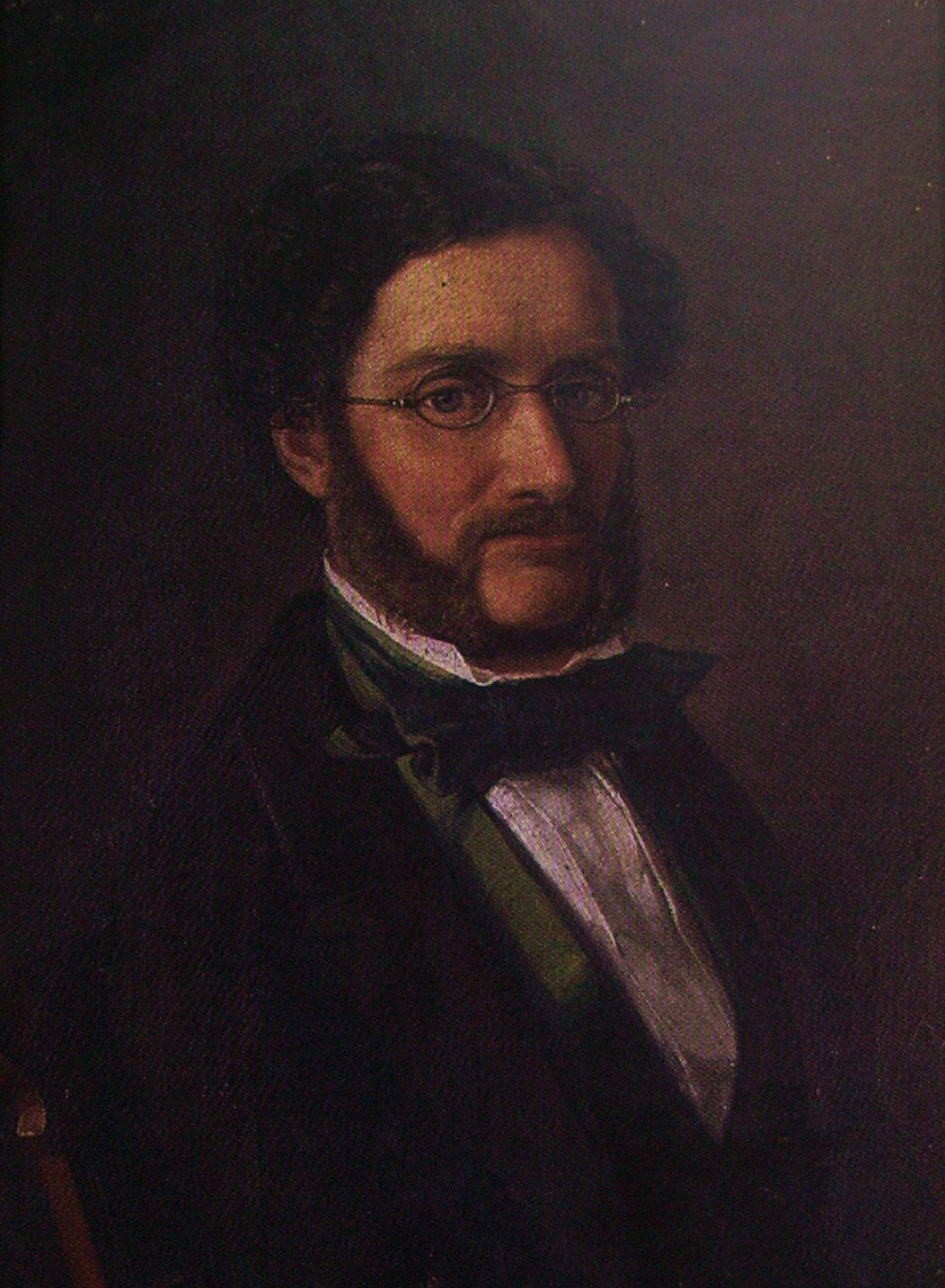 Picture of Edvard Grönblad, Finnish scholar and archivist